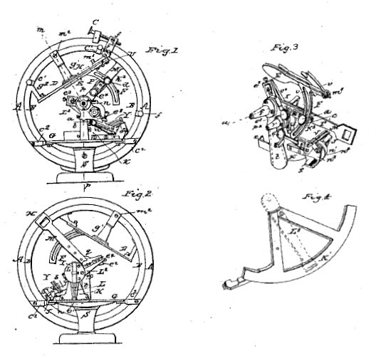 Patent 16002 drawings of Equatorial Sextant